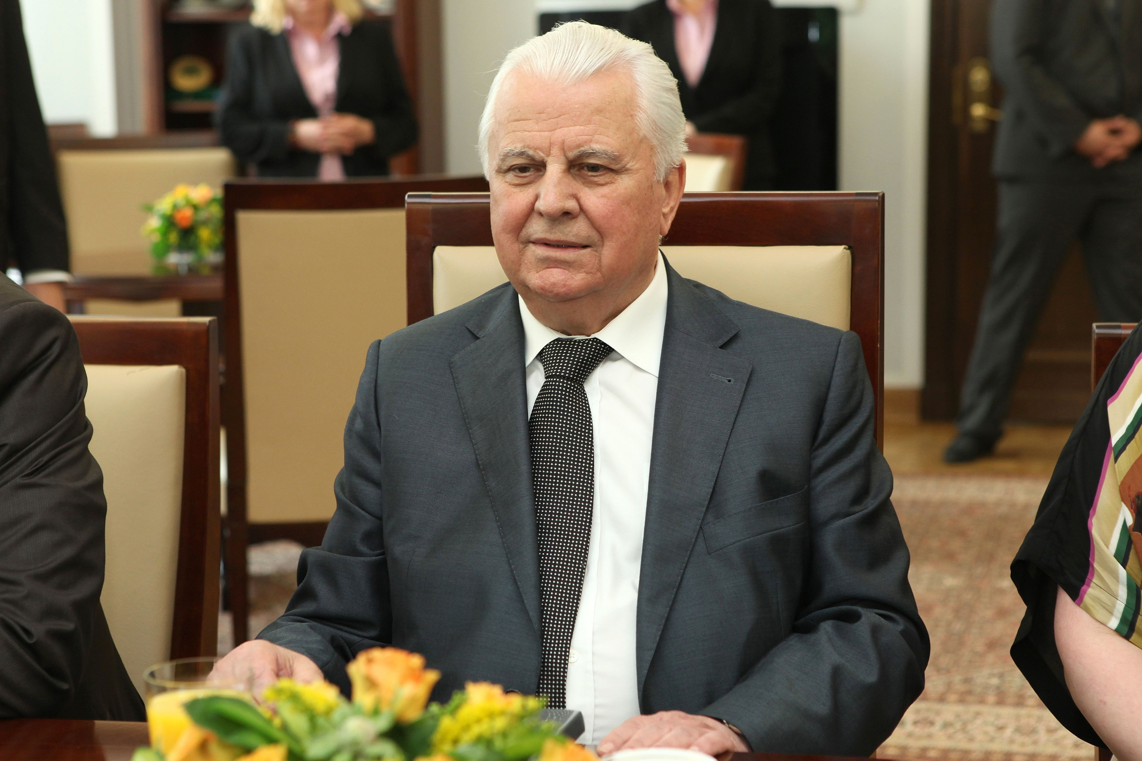 Leonid Kravchuk in the Polish Senate